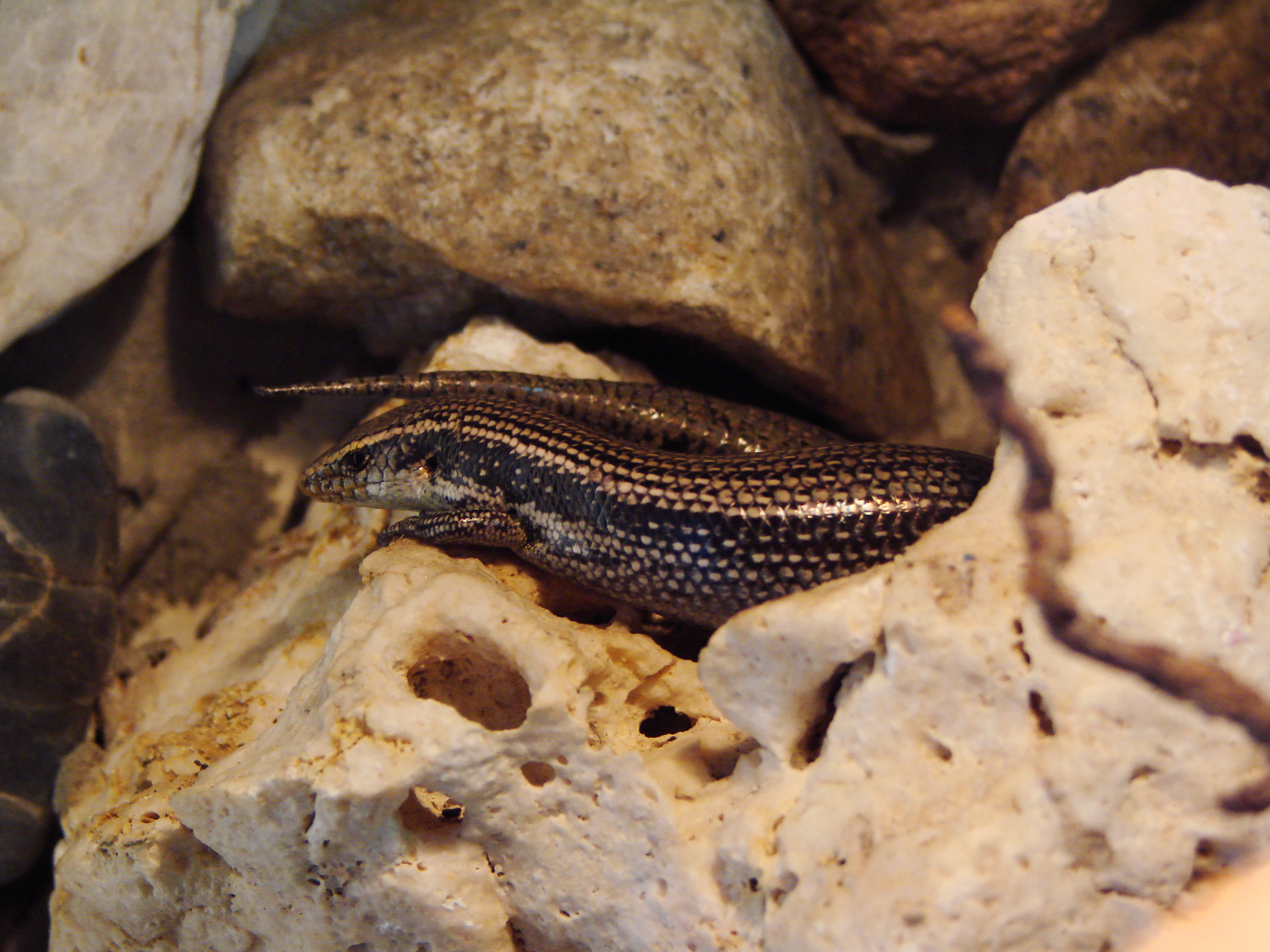 Picture taken in the zoo of Wrocław (Poland): Chalcides viridanus (Gravenhorst, 1851)